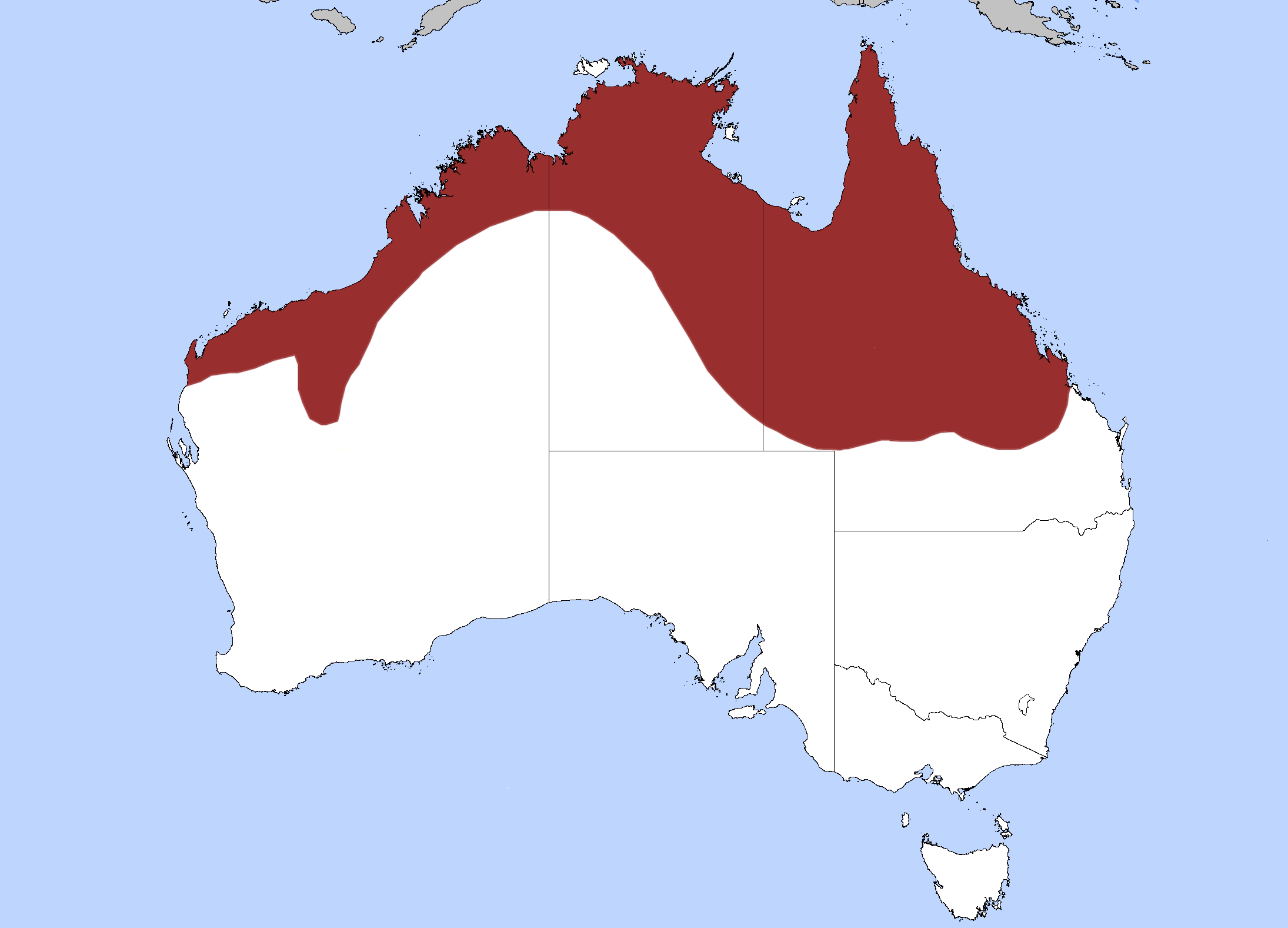 The Distribution of the Black-headed Python